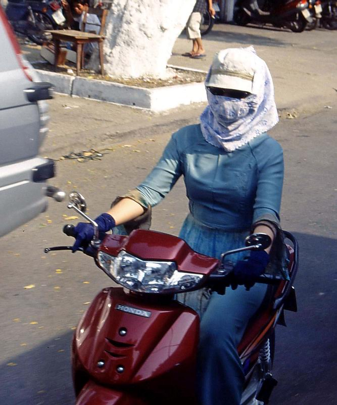 Mummed woman on a moped, Ho Chi Minh City, Vietnam